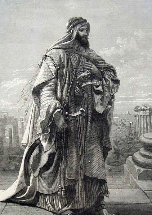 Sheik Medjuel el Mezrab